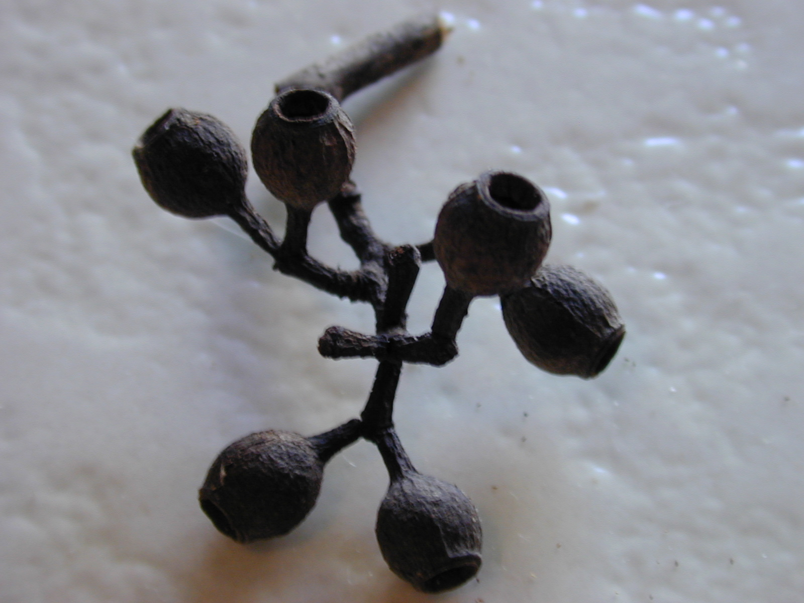 Corymbia citriodora (round urn fruit). Location: Maui, Hobdy collection